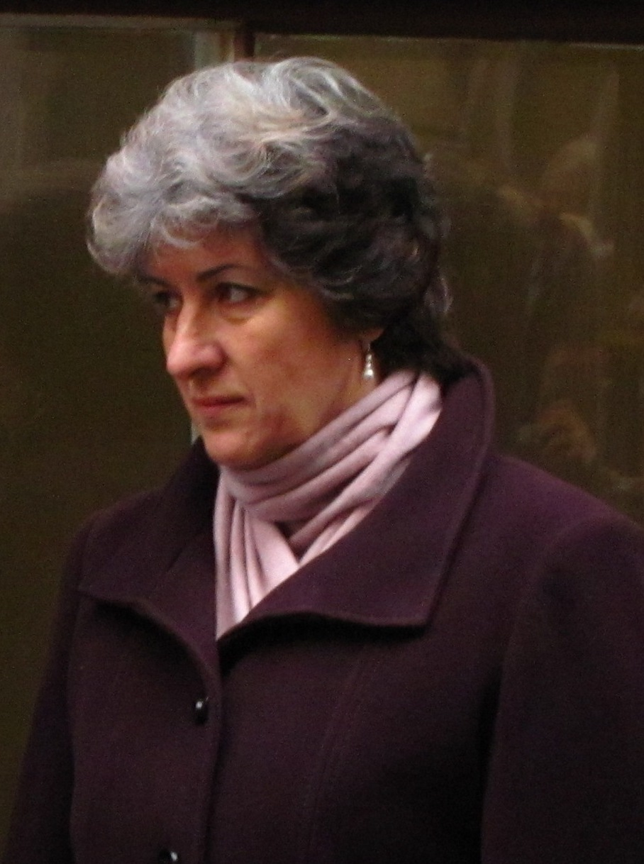 Alena Gajdůšková, Czech Senator